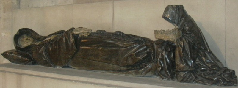 This picture shows duchess of Lorraine Phillipa of Guelders's recumbent statue in Cordeliers'Church at Nancy.